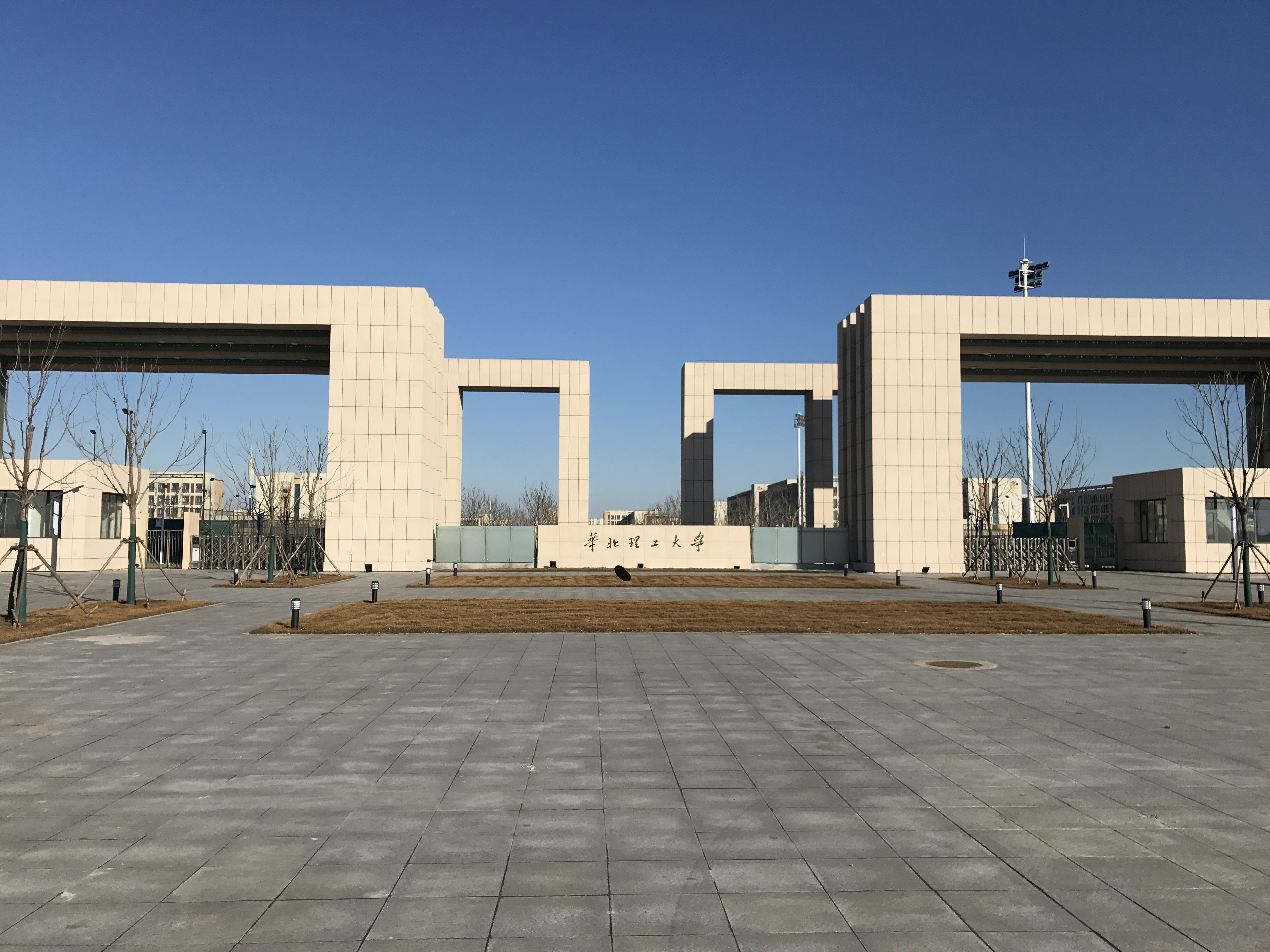 华北理工大学西二门